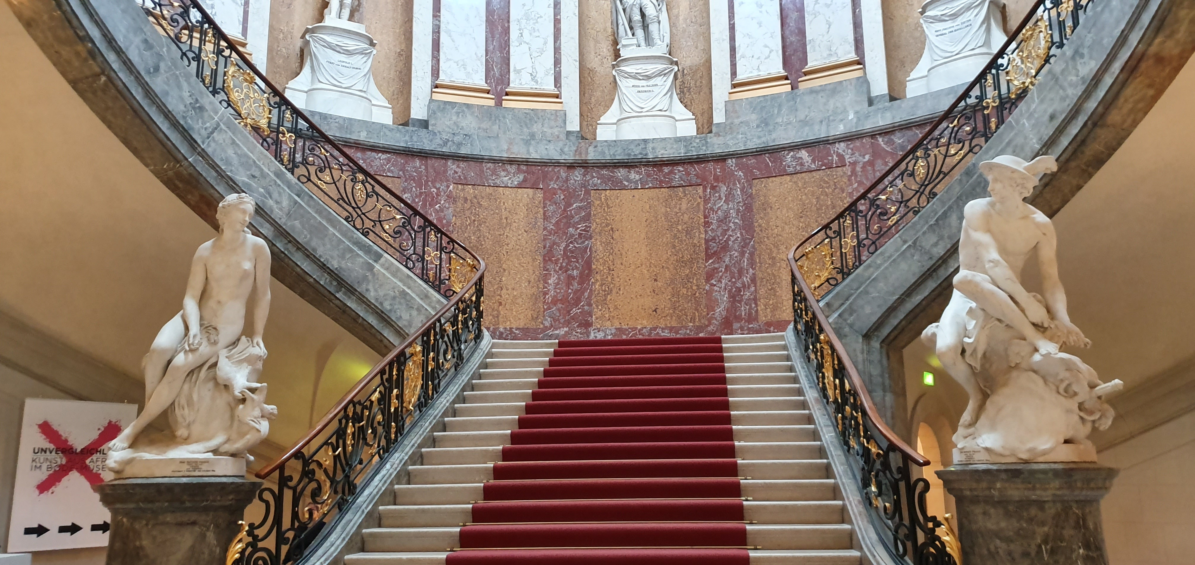 Statues of Venus and Mercury which originally formed the beginning of the vineyard steps of Sanssouci set up, located in the small hall within the dome of Bode Museum, created for the King in 1748 by the sculptor Jean-Baptiste Pigalle